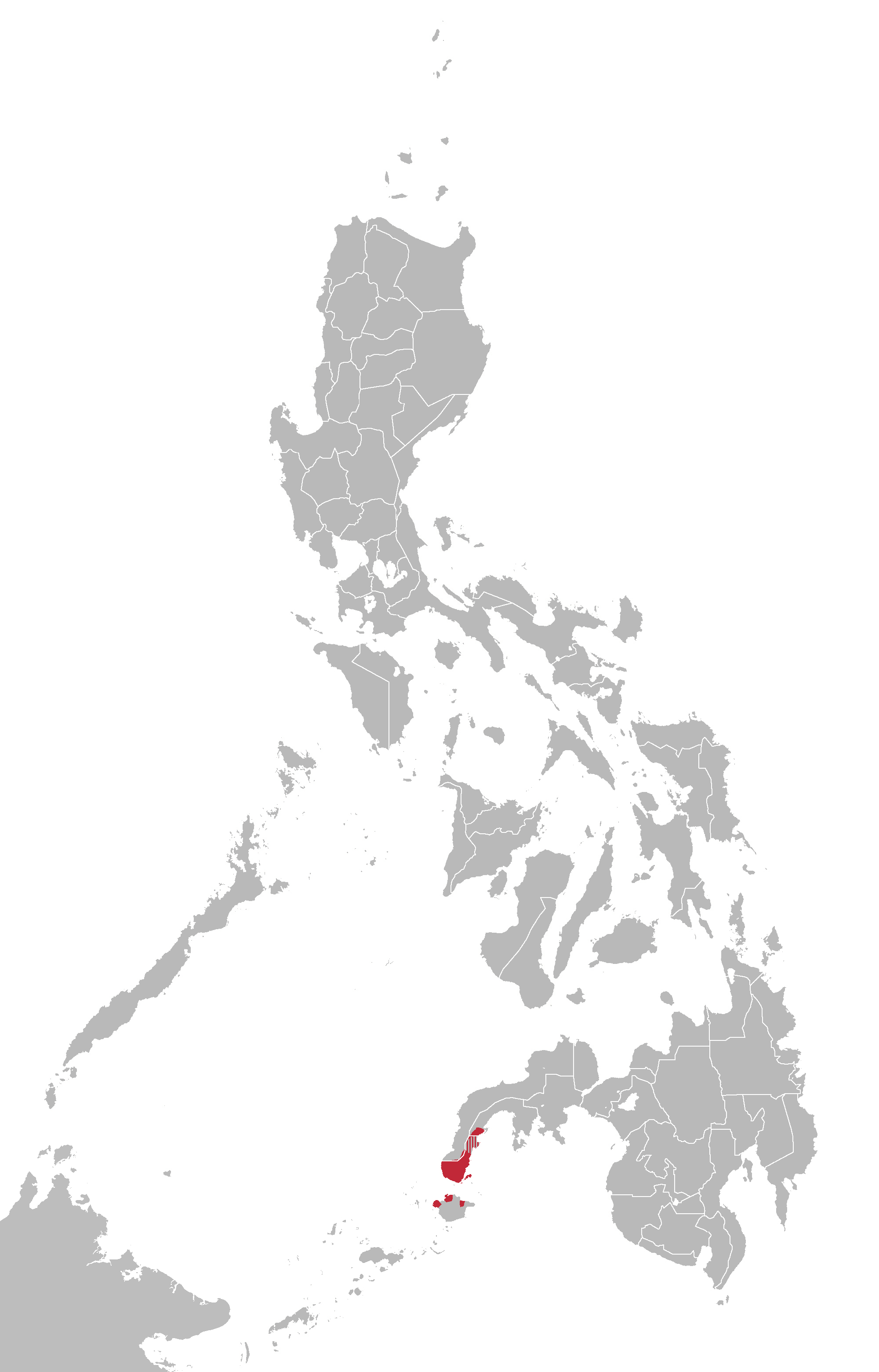 Chavacano language map based on Ethnologue maps